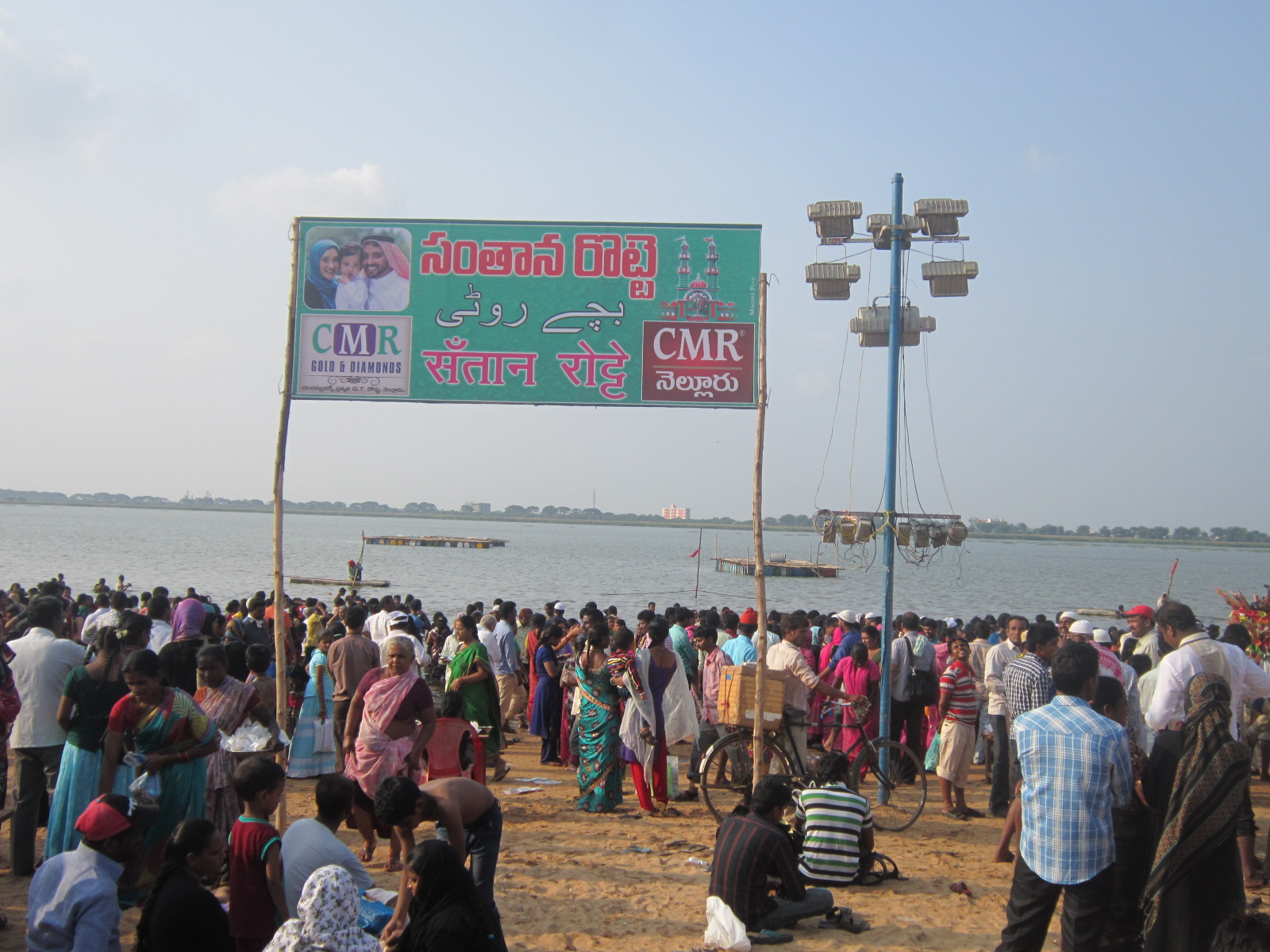 Rottela panduga Nellore,Andhra Pradesh